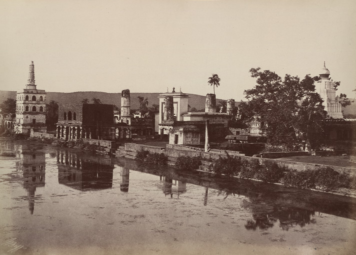 Banashankari group of temples photo taken in 1855